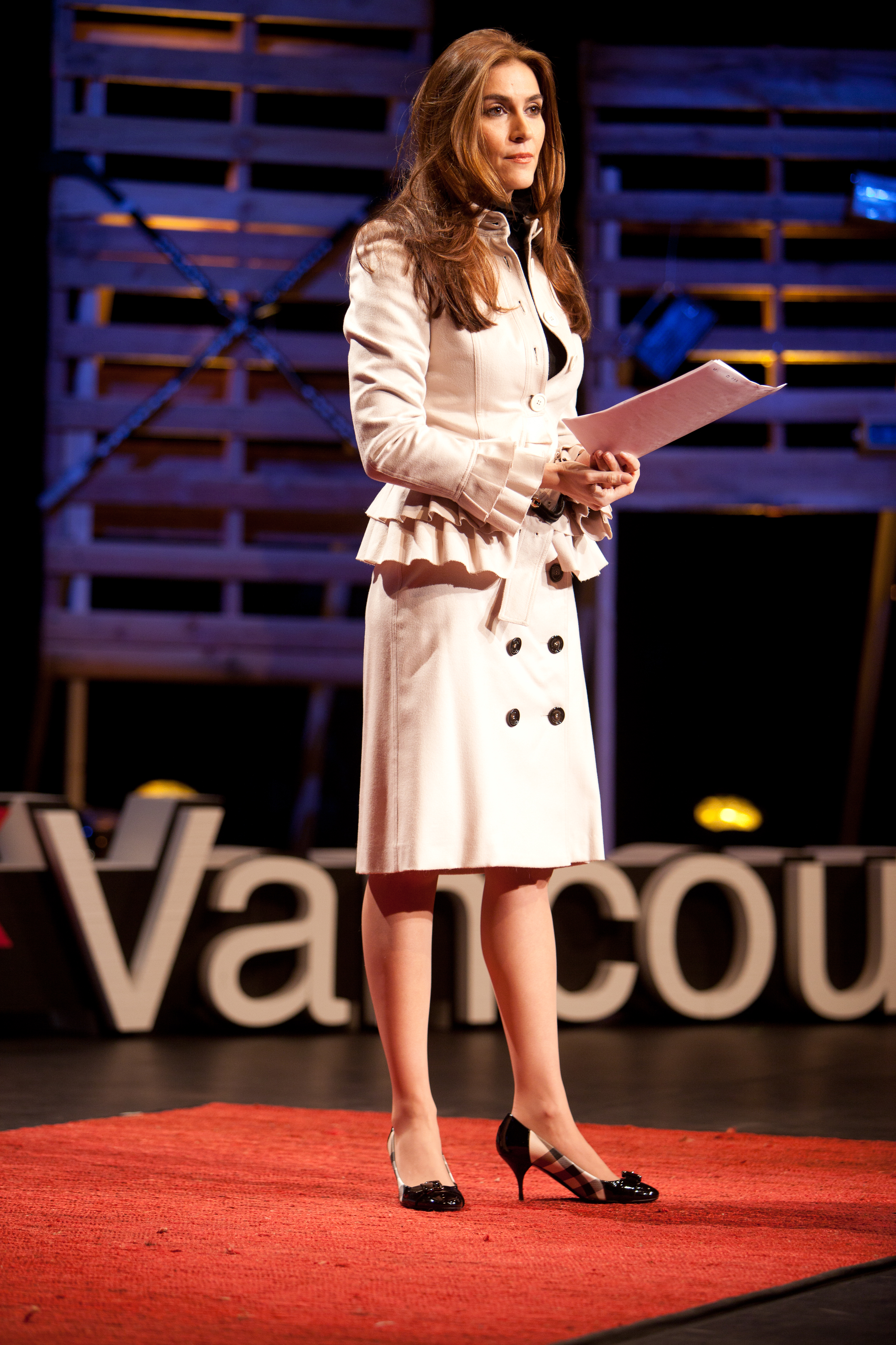 photo by Kris Krüg